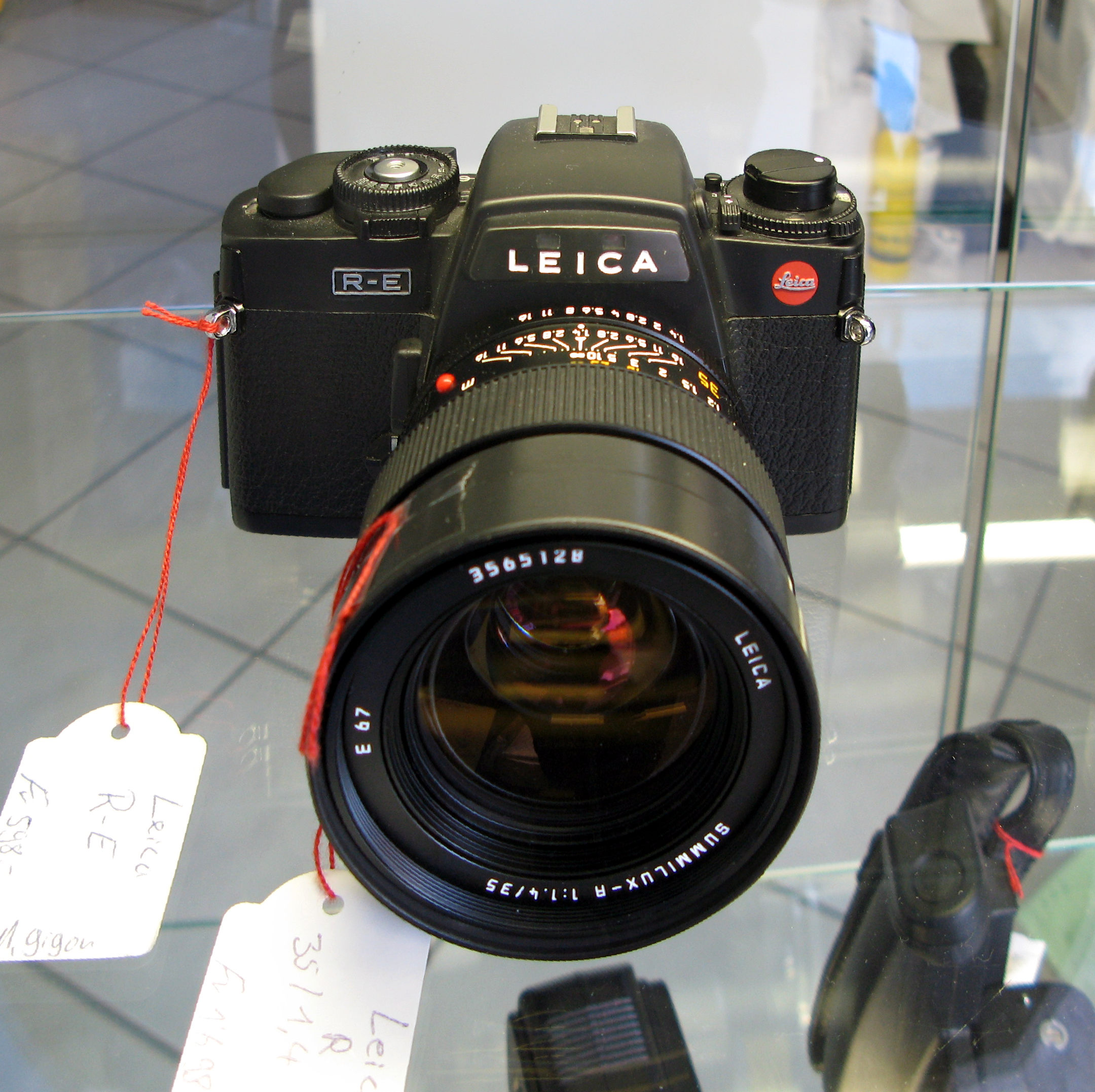 Leica R-E SLR camera